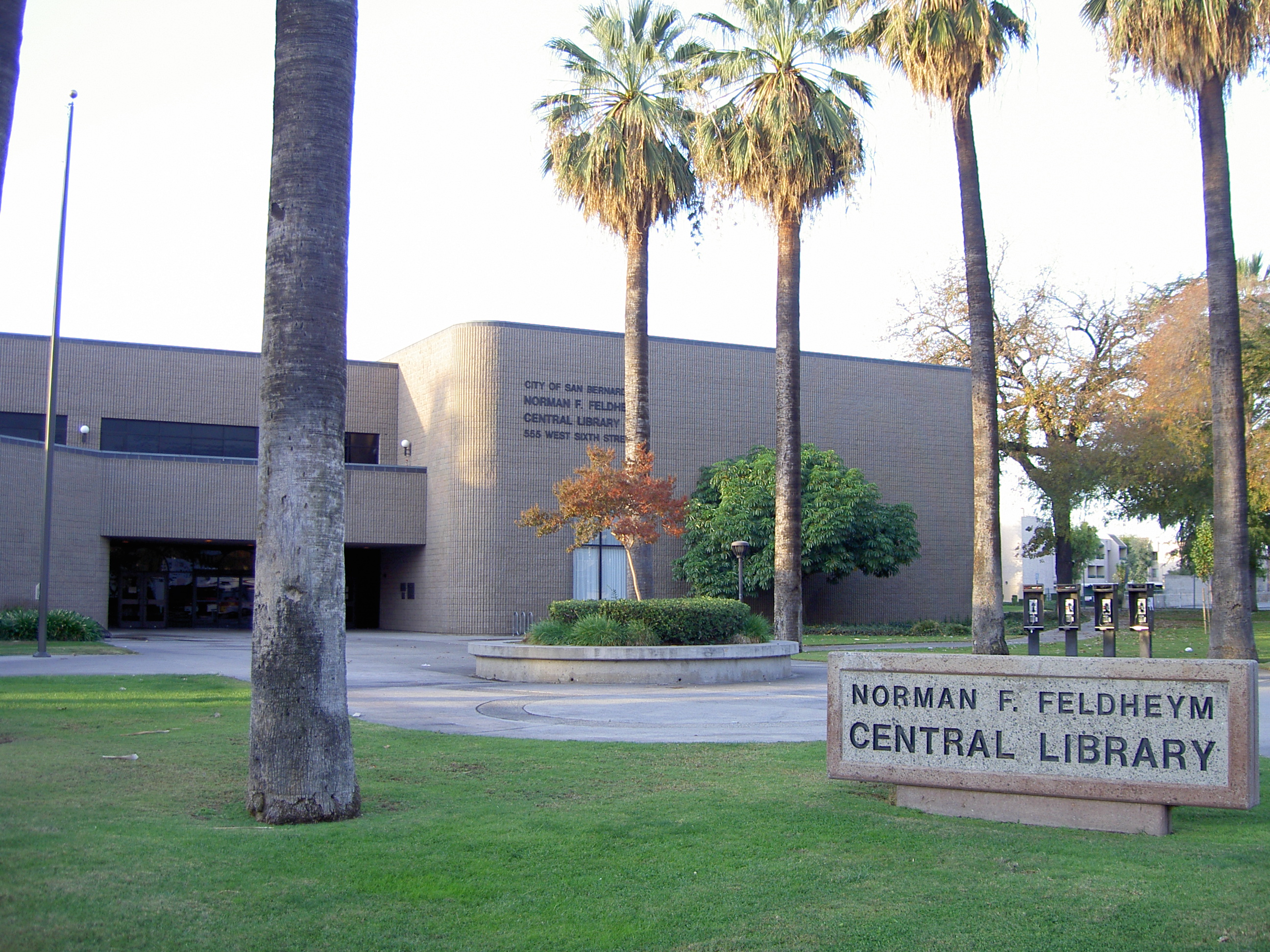 San Bernardino, CA